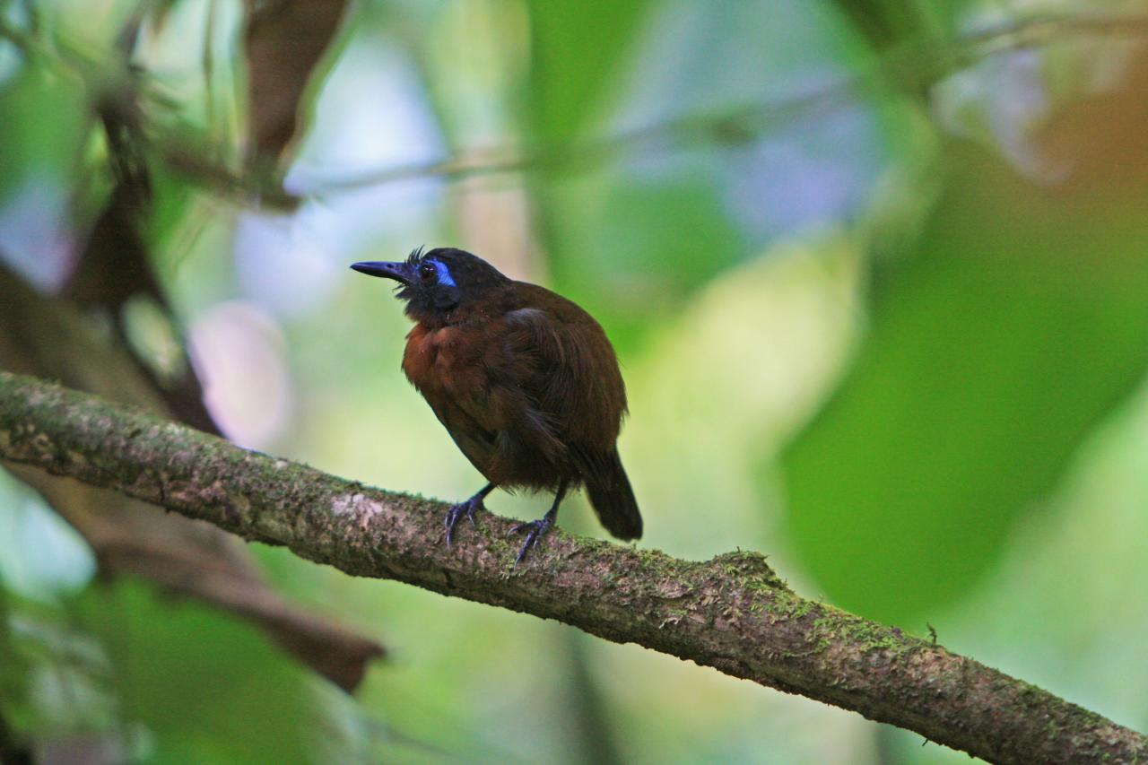 A female Chestnut-backed Antbird in Corcovado National Park, Osa Peninsula, Costa Rica.